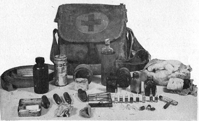 Japanese first-aid kit and contents. Such kits contained ampoules of a wide variety of sizes and shapes, with no standardization for shipping and packaging. Figure 407 from the Handbook On Japanese Military Forces.